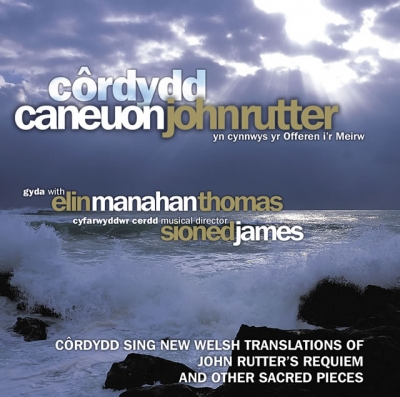 Artwork for the Album Caneuon John Rutter (Yn Cynnwys Offeren I'r Meirw) by Cordydd